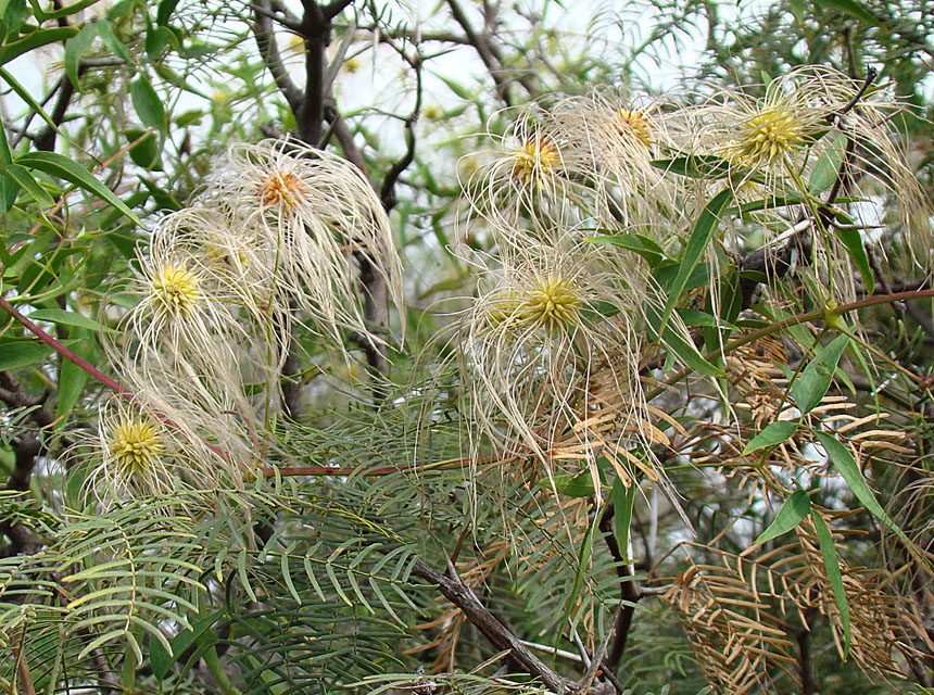 Vine seeds known as Barba de Chivato (goat's beard). La Rioja Province, Argentina. In context at